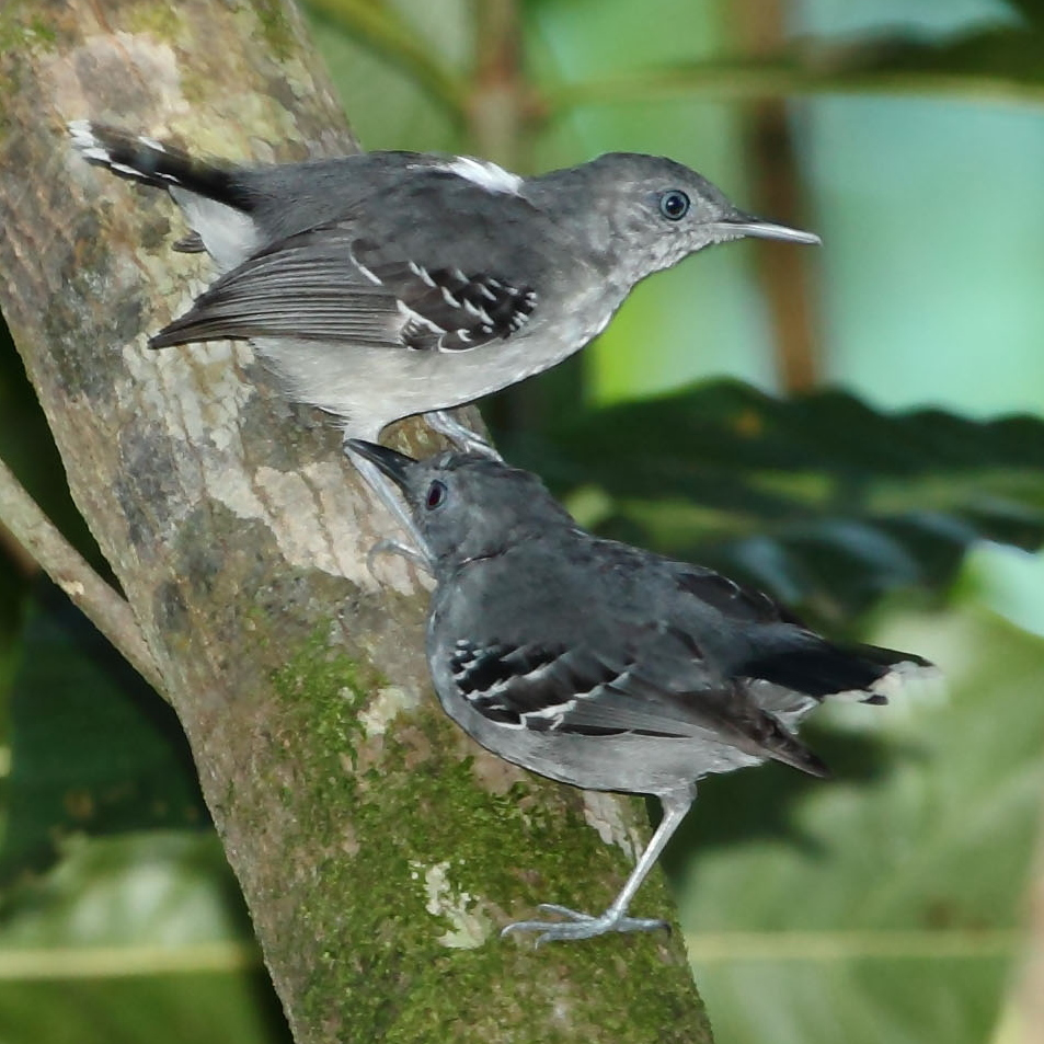 Band-tailed Antbird (couple) at Apiacás - MT- Brazil